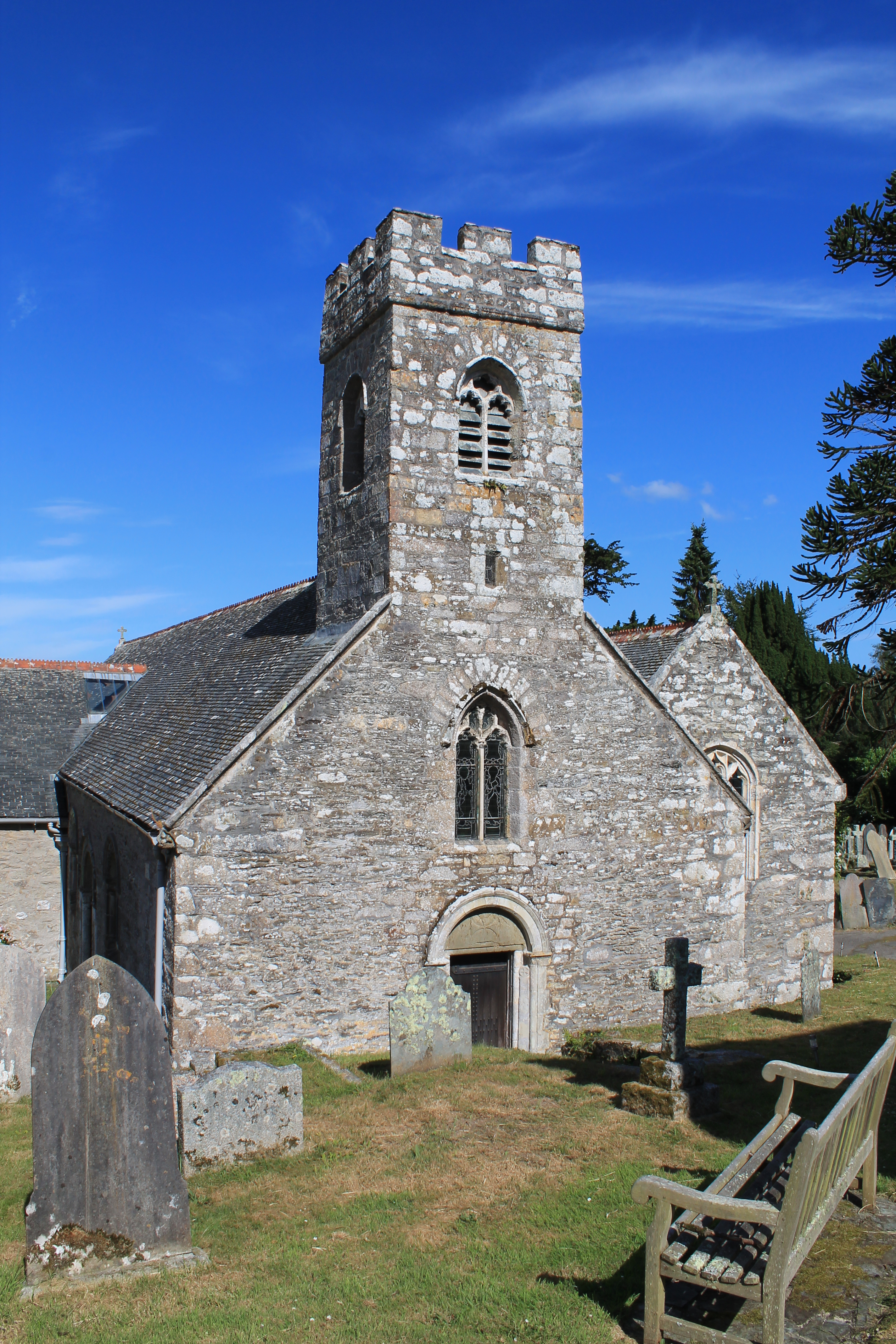 Church of Saint Mylor